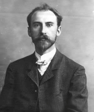 Jaan Tõnisson, a member of the First Russian State Duma, 1906